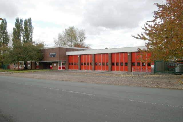 Whitehill fire station Whitehill fire station, Whitehill Street West, Stockport, Greater Manchester